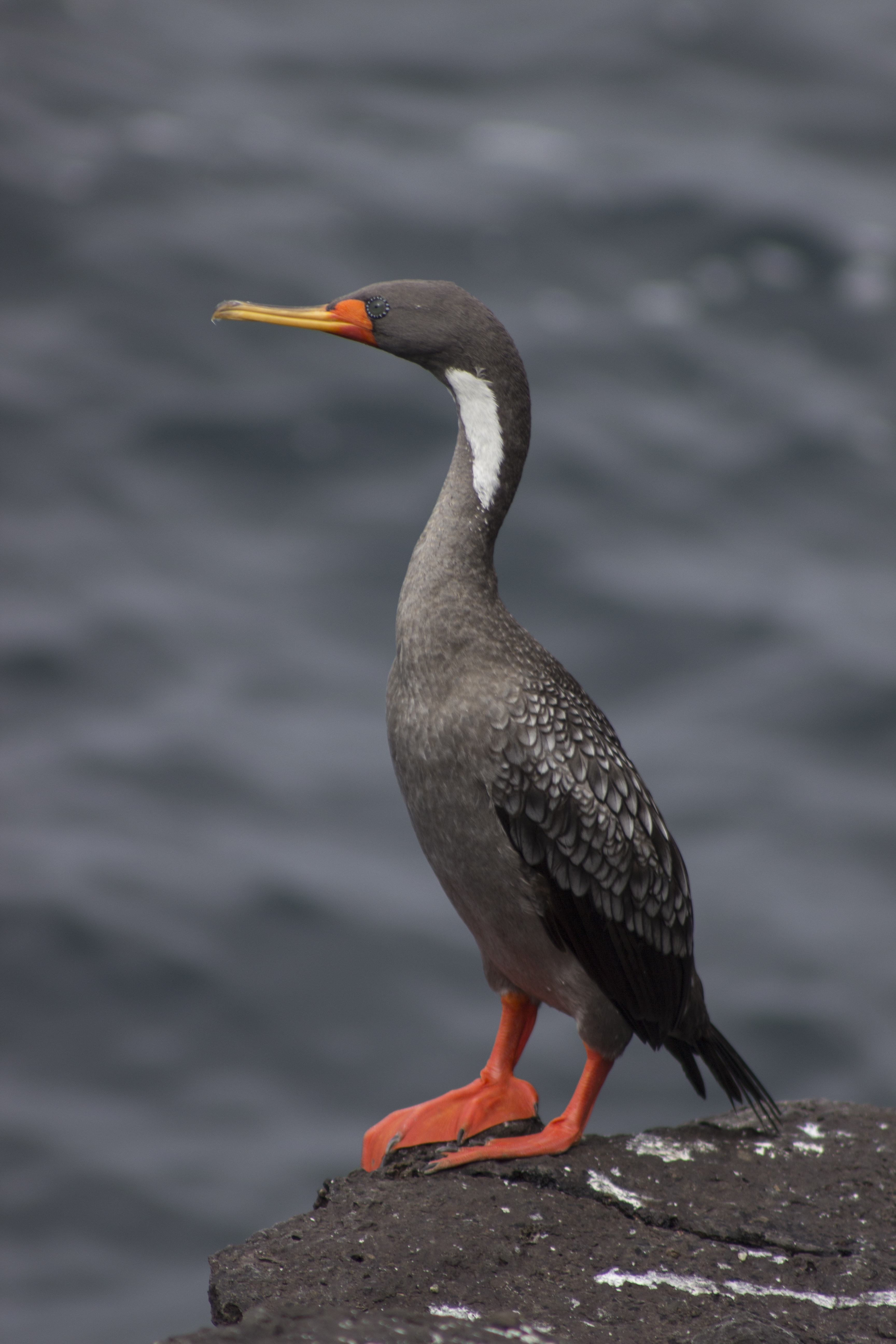 Phalacrocorax gaimardi